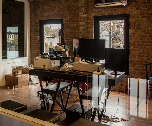 The science lab features a microscope with attached printer.